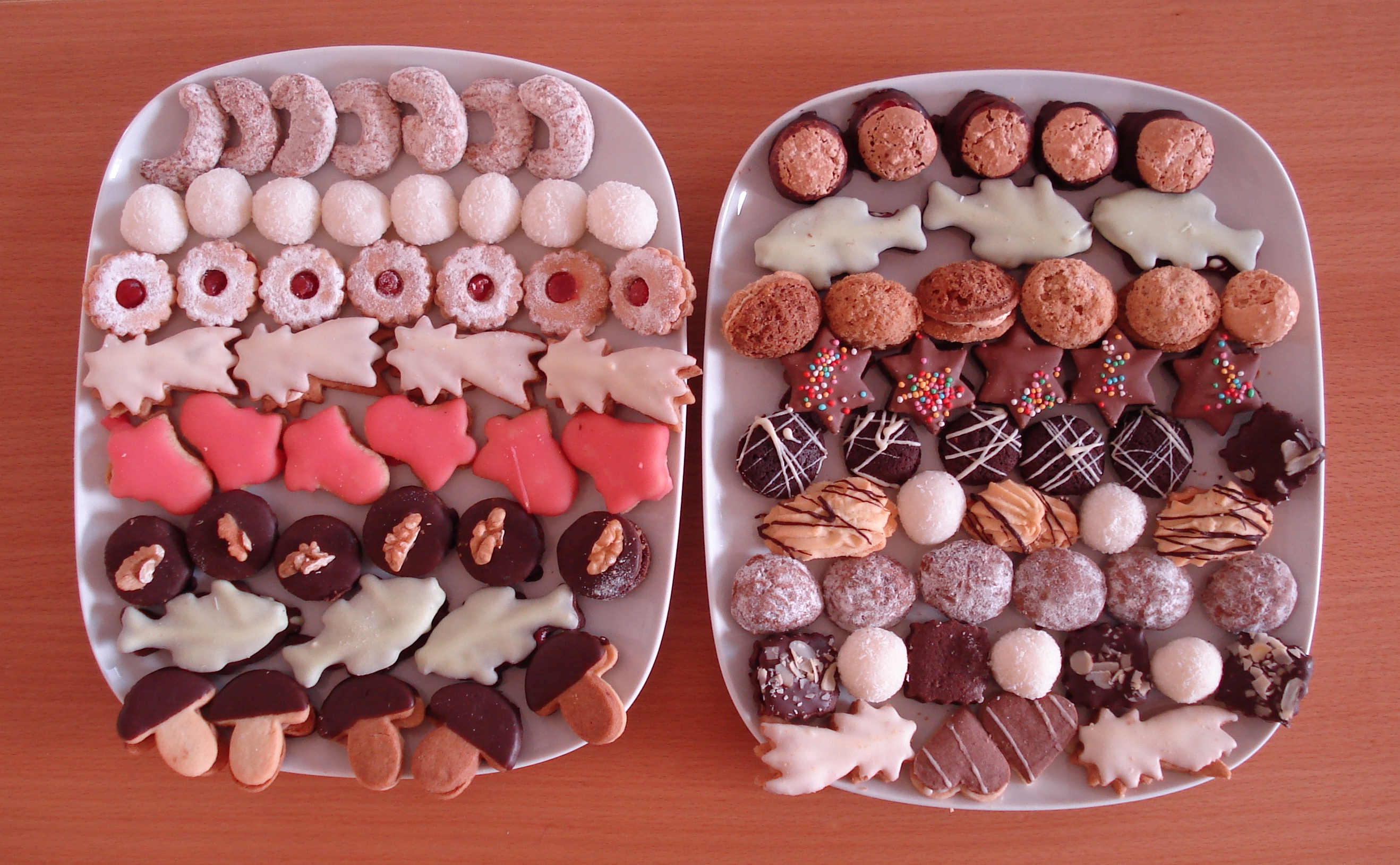 Christmas cookies in Czech republic.